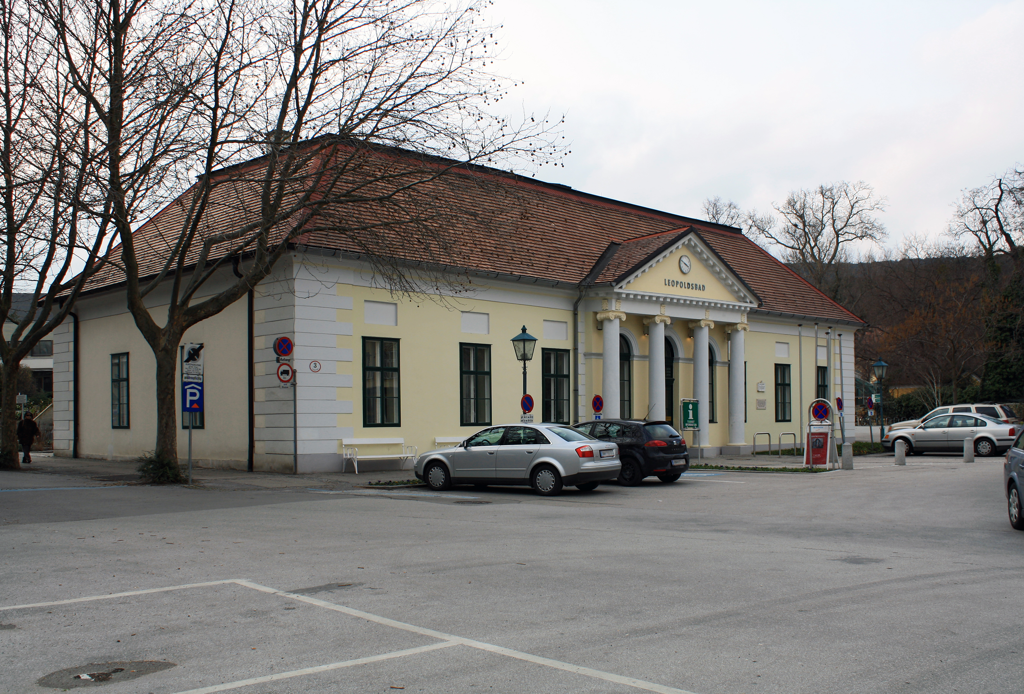 Leopold-bath in Baden Lower Austria